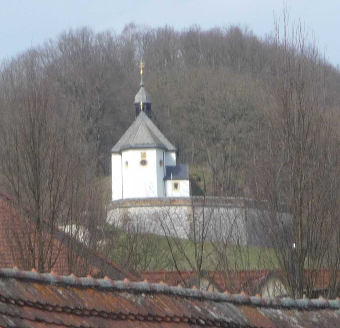 Gunzendorf